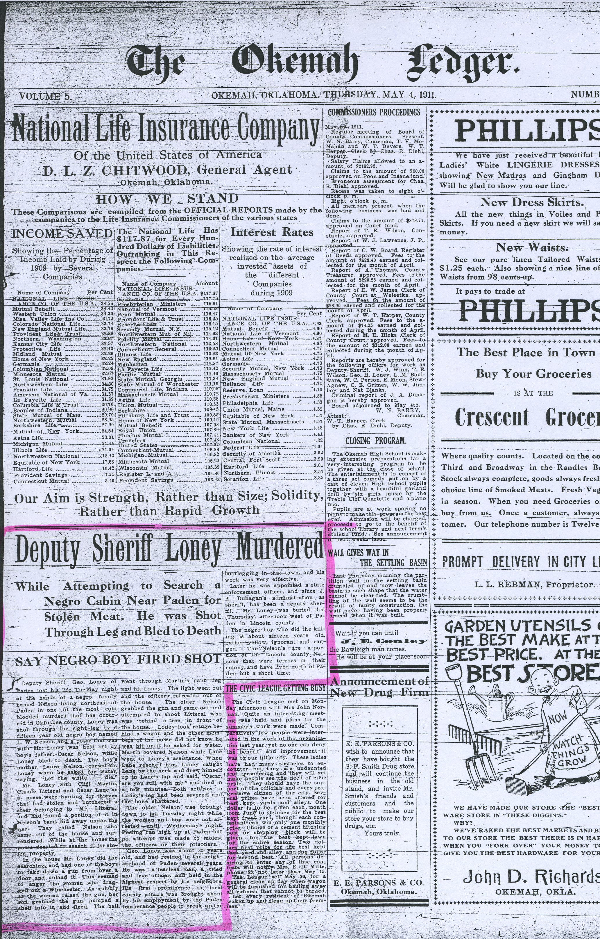 The Okemah Ledger, May 4, 1911, reporting the murder of Deputy Sheriff George Loney. The death led to the lynching of Laura and Lawrence Nelson.